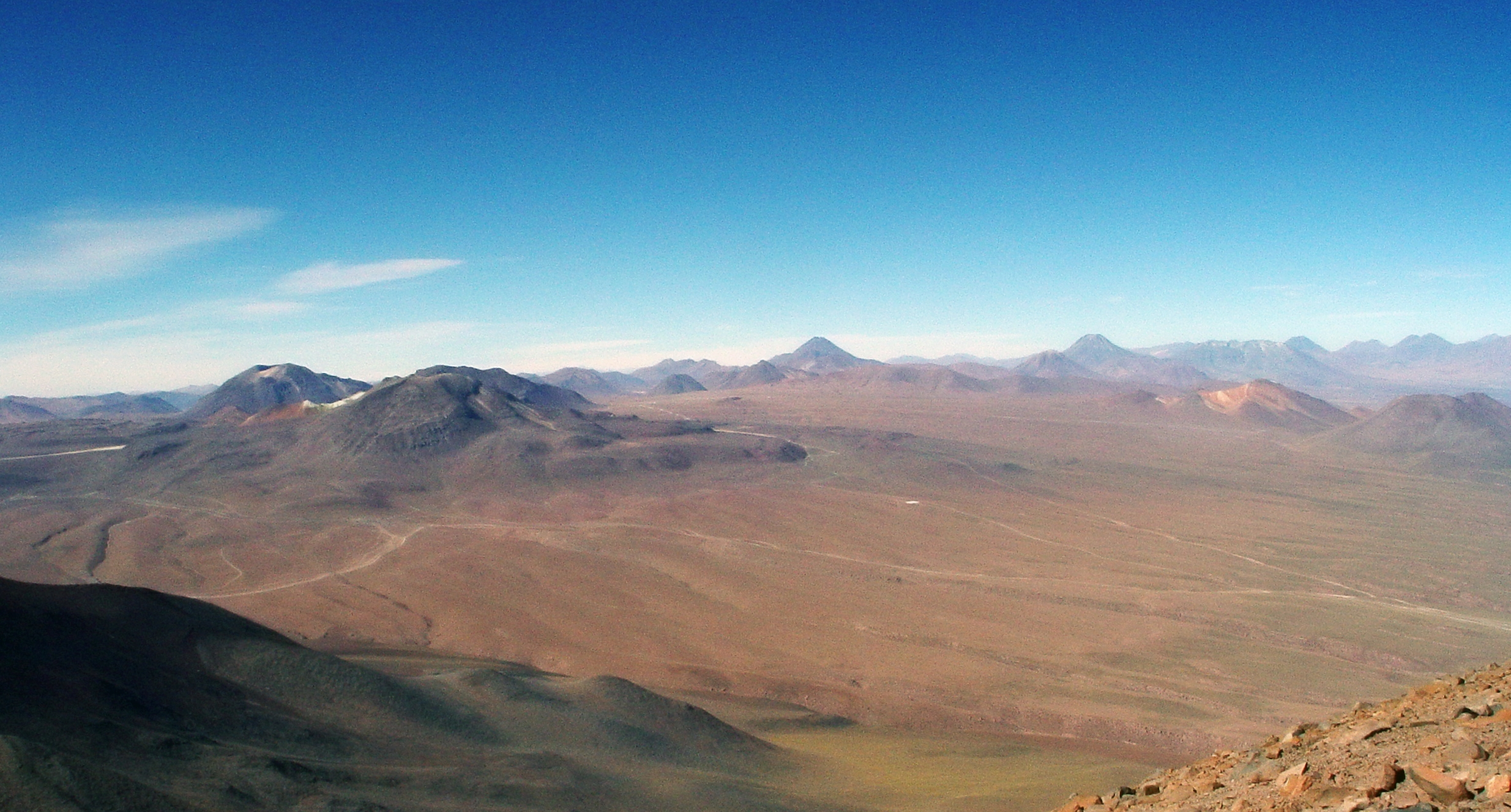 High view of the Chajnantor Plateau, taken from the top of volcano Licancabur, 5,920 m above sea level.